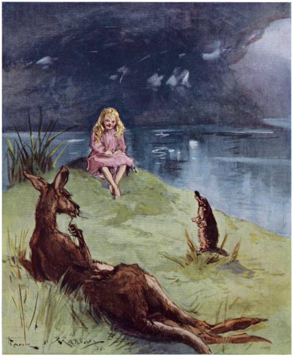 Unknown